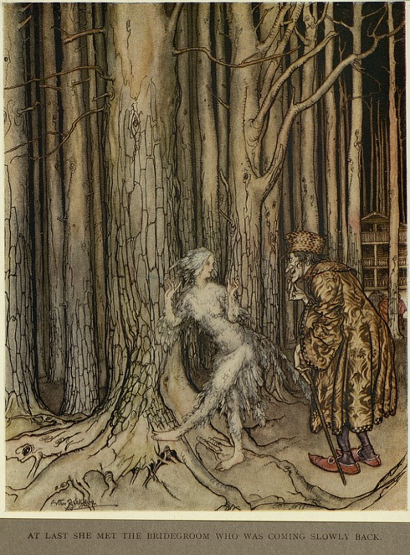 Little brother & little sister and other tales by the Brothers Grimm, illustrated by Arthur Rackham, 1917.